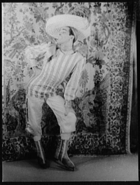 Title: Portrait of Rudy Richards, in "Howdy Mr. Ice" Abstract/medium: 1 photographic print : gelatin silver.